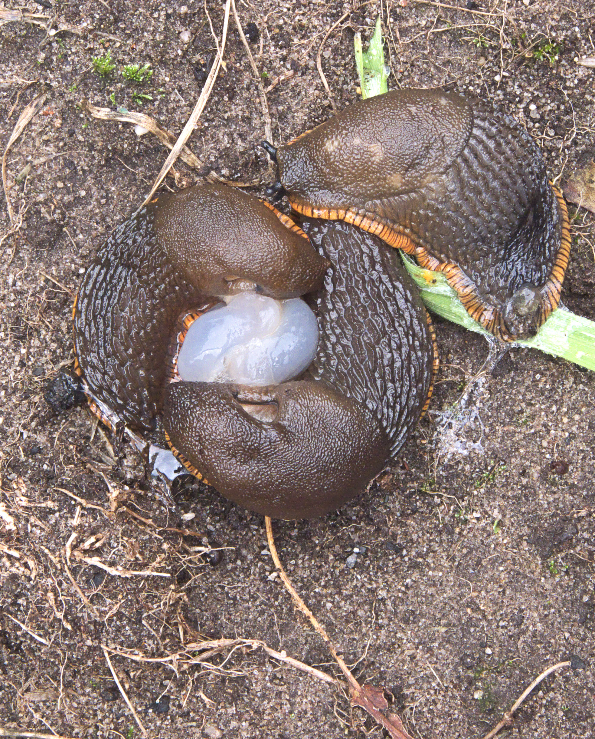 Copulating Arion rufus